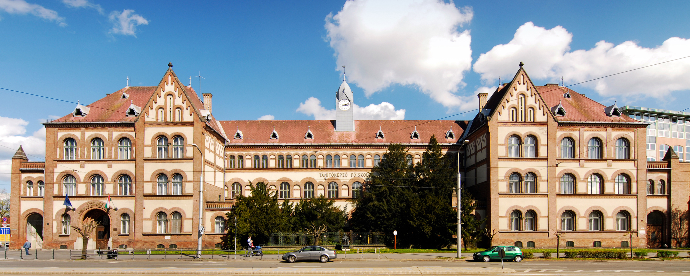 A Kölcsey-főiskola épülete